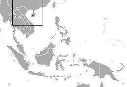 Hainan Island Shrew (Crocidura wuchihensis) range